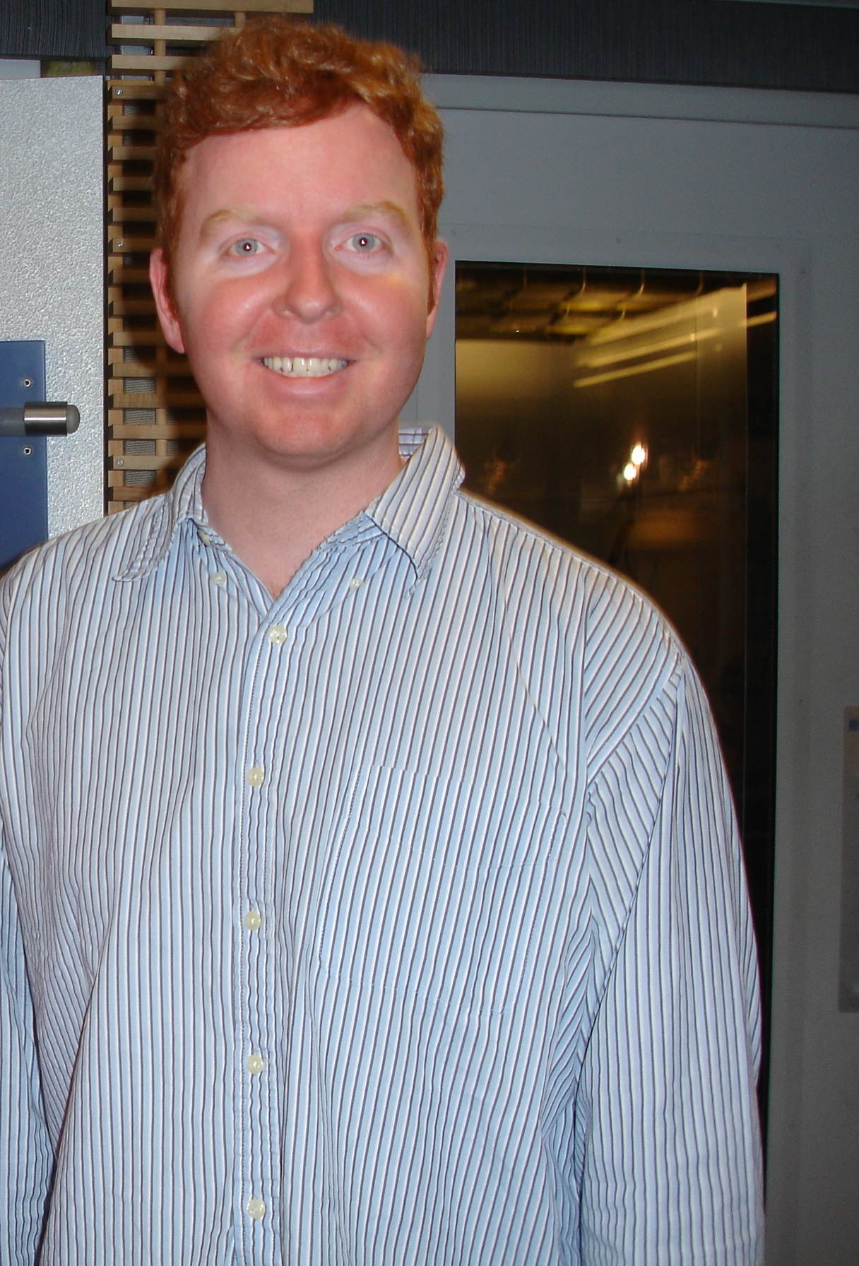 David McDonald May 2006